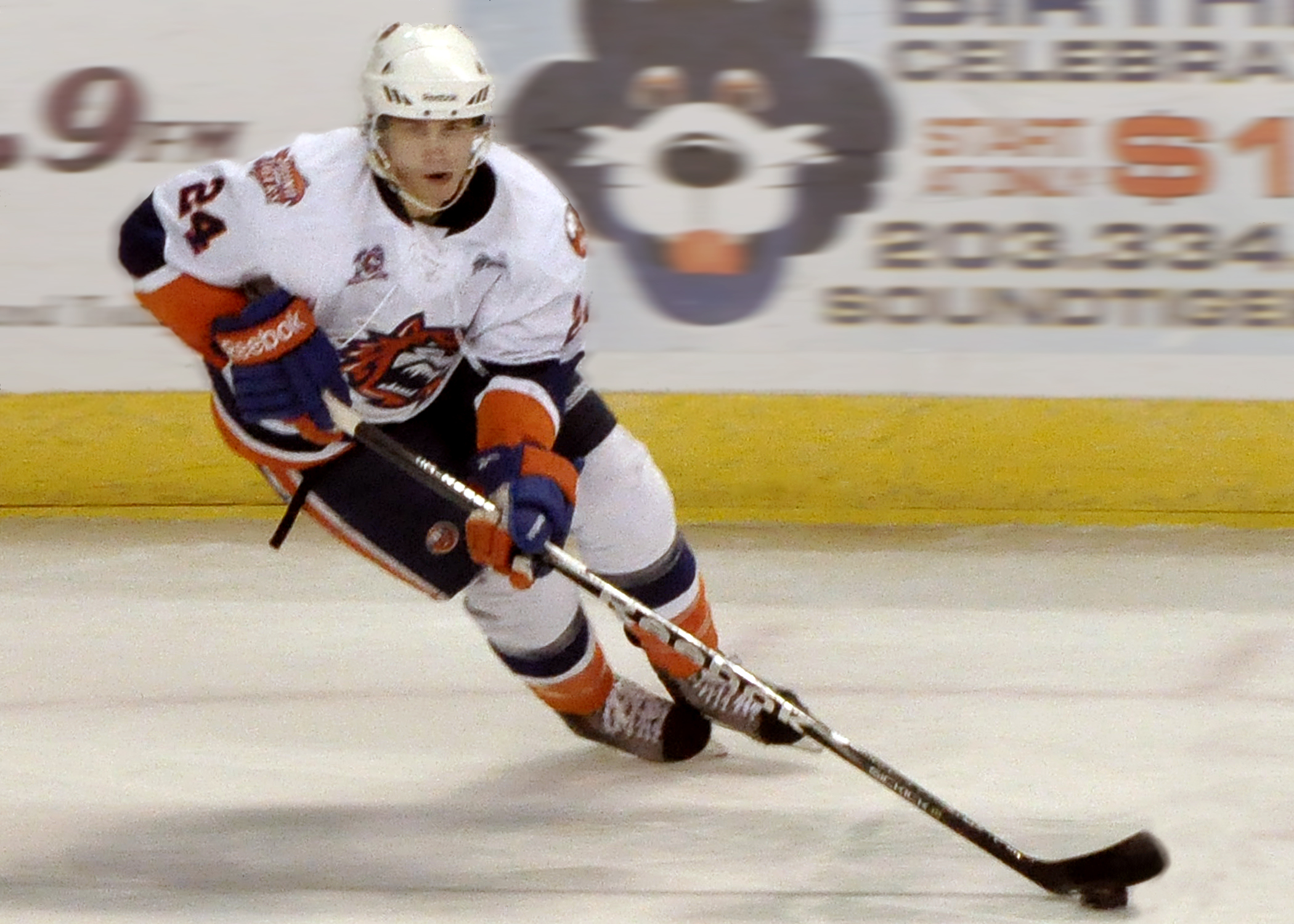 David Ullstrom (#23)center for AHL Bridgeport Sound Tigers hockey team during a game at the Arena at Harbor Yard in Bridgeport, Connecticut on February 20, 2011 against the Manchester Monarchs. The Sound Tigers are the affiliate of the New York Islanders.